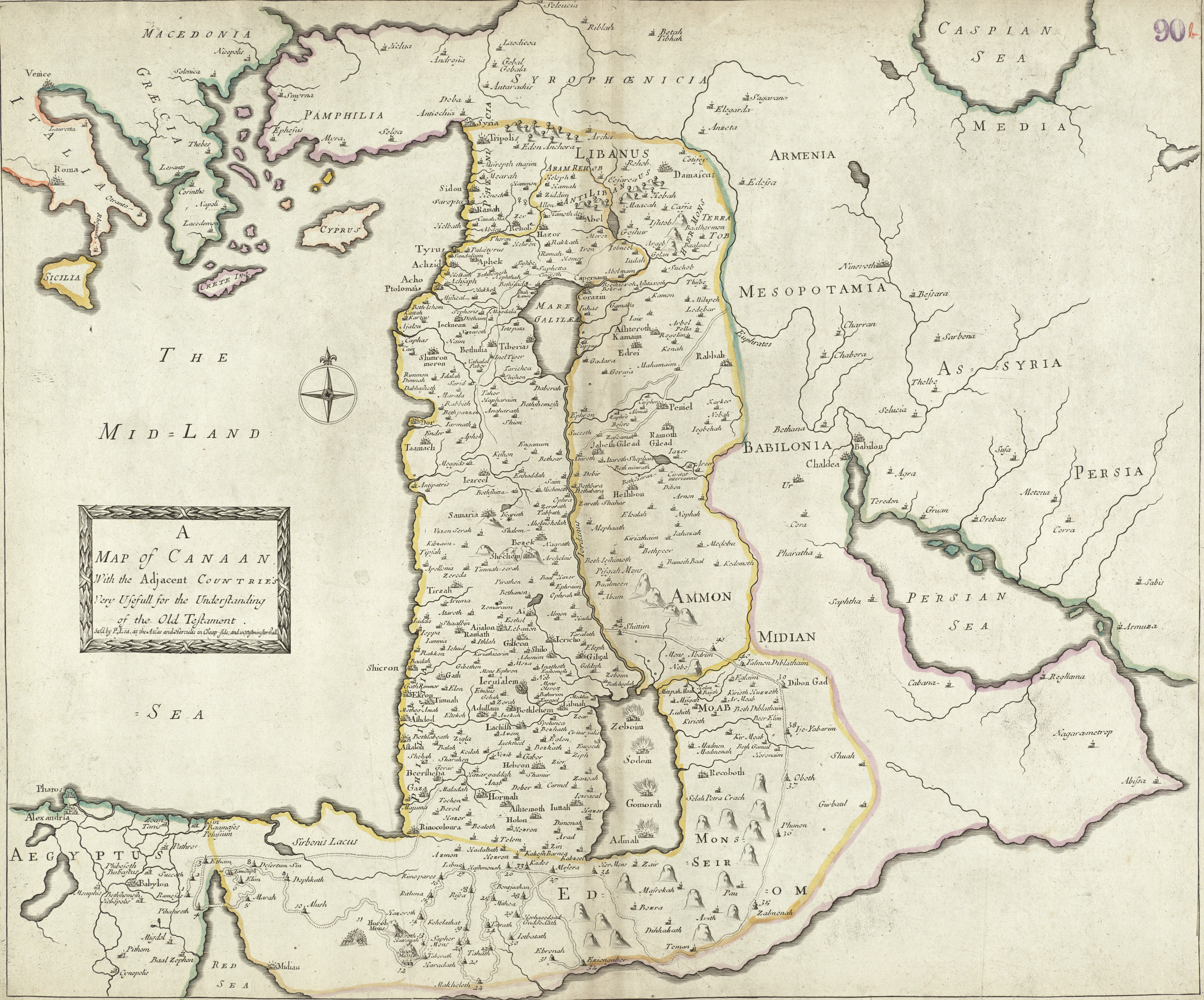 Zoom into this map at . Author: Lea, Philip Publisher: Lea, Philip Date: 1692 Location: Holy Land, Israel, Palestine Dimensions: 51 x 60 cm. Scale: Scale not given Call Number: G1015 .C65 1630